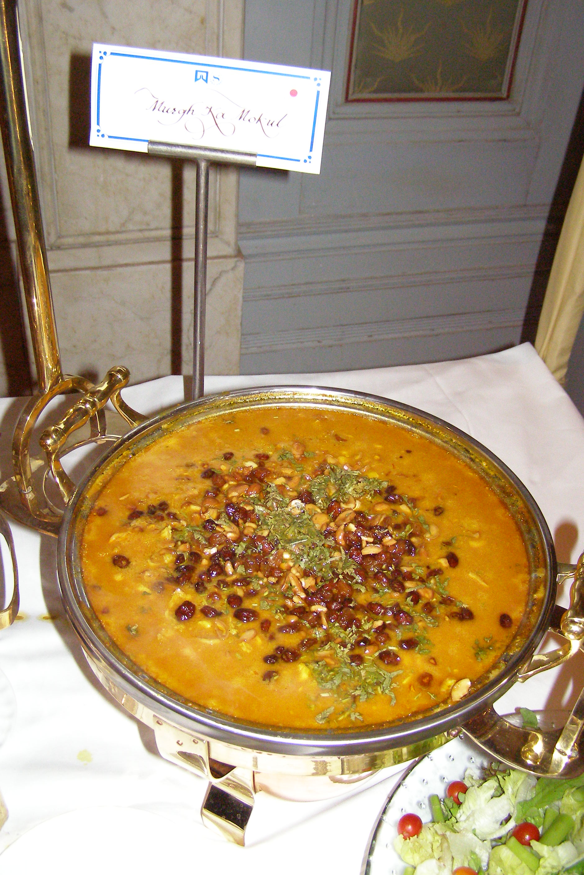 Murgh Ka Mokul, South Asian, West Indian Cuisine, Non-Vegetarian, New Delhi Sheraton Hotel Ballroom, 05 May 2007